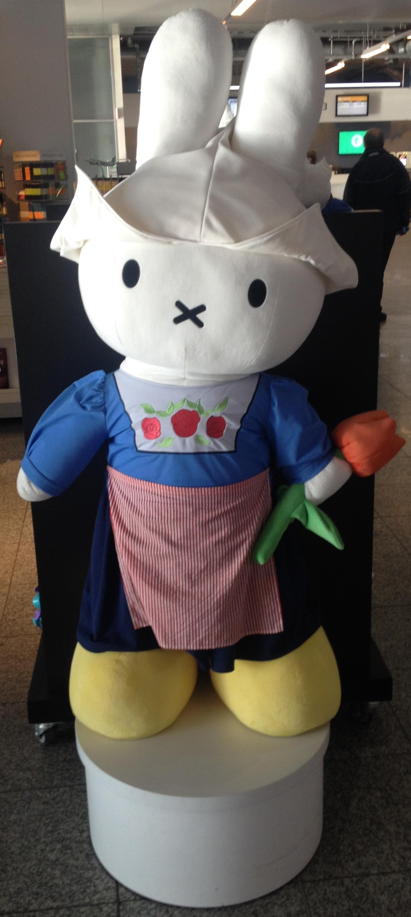 A Giant Miffy doll outside the Eindhoven Airport branch of AKO, being used as part of a promotion. Taken 22nd November 2017.